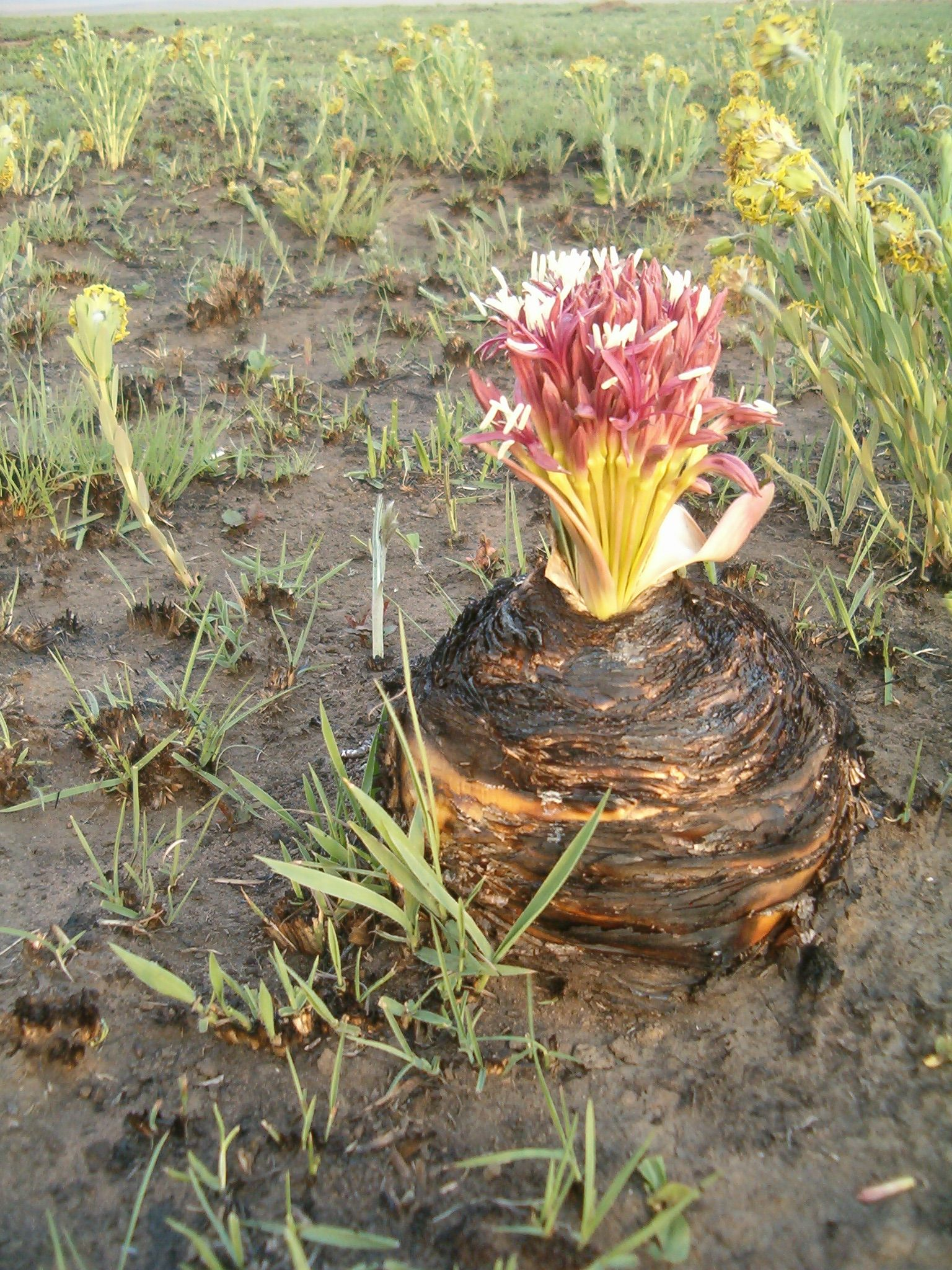 At Sterkfonteindam, Free State, South Africa Species Boophone disticha